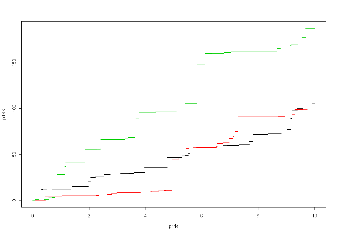 three sample paths of varanace-gamma levy processes